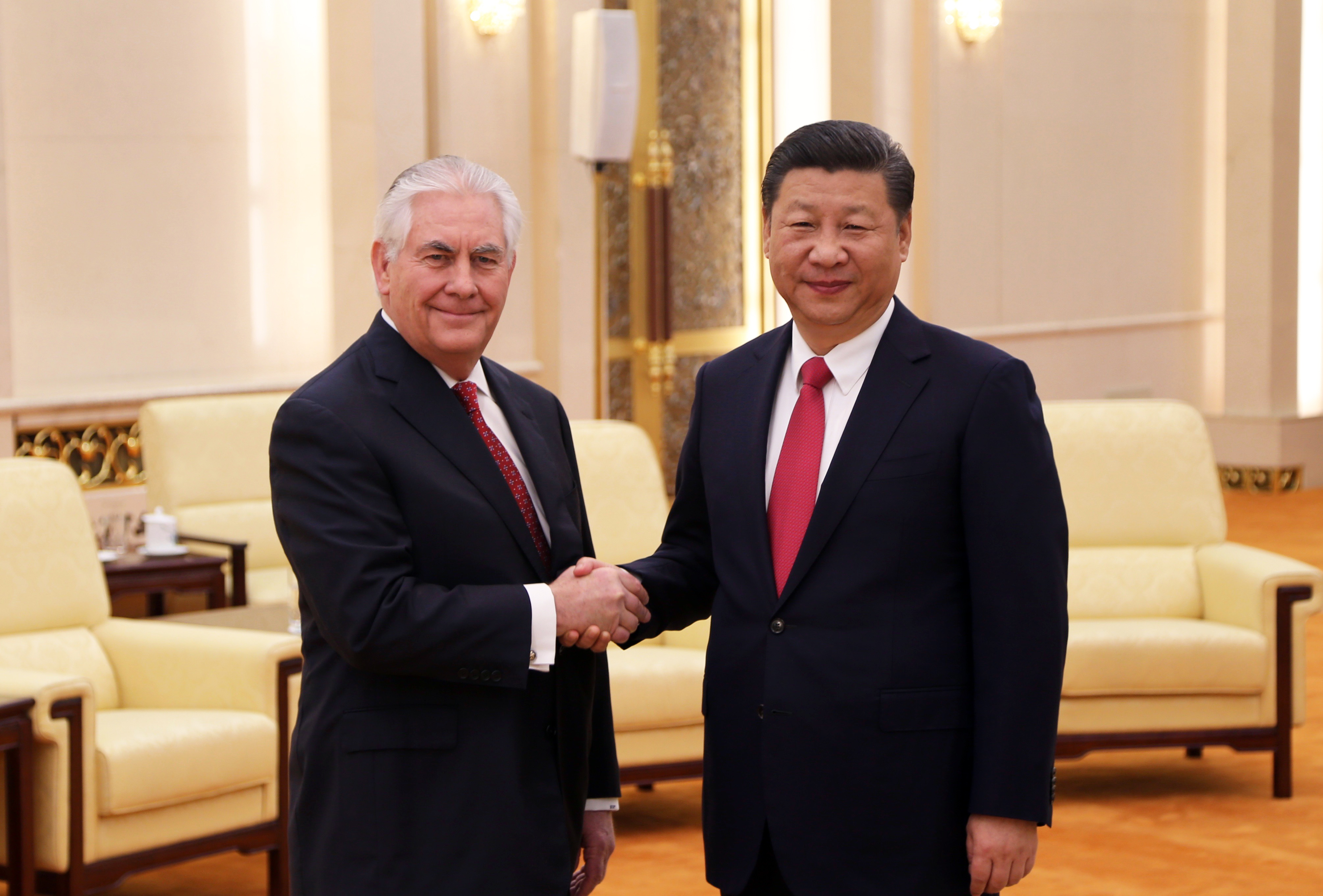 U.S. Secretary of State Rex Tillerson shakes hands with Communist Party of China's General Secretary Xi Jinping before their meeting in Beijing, China, on March 19, 2017. [State Department photo/Public Domain]